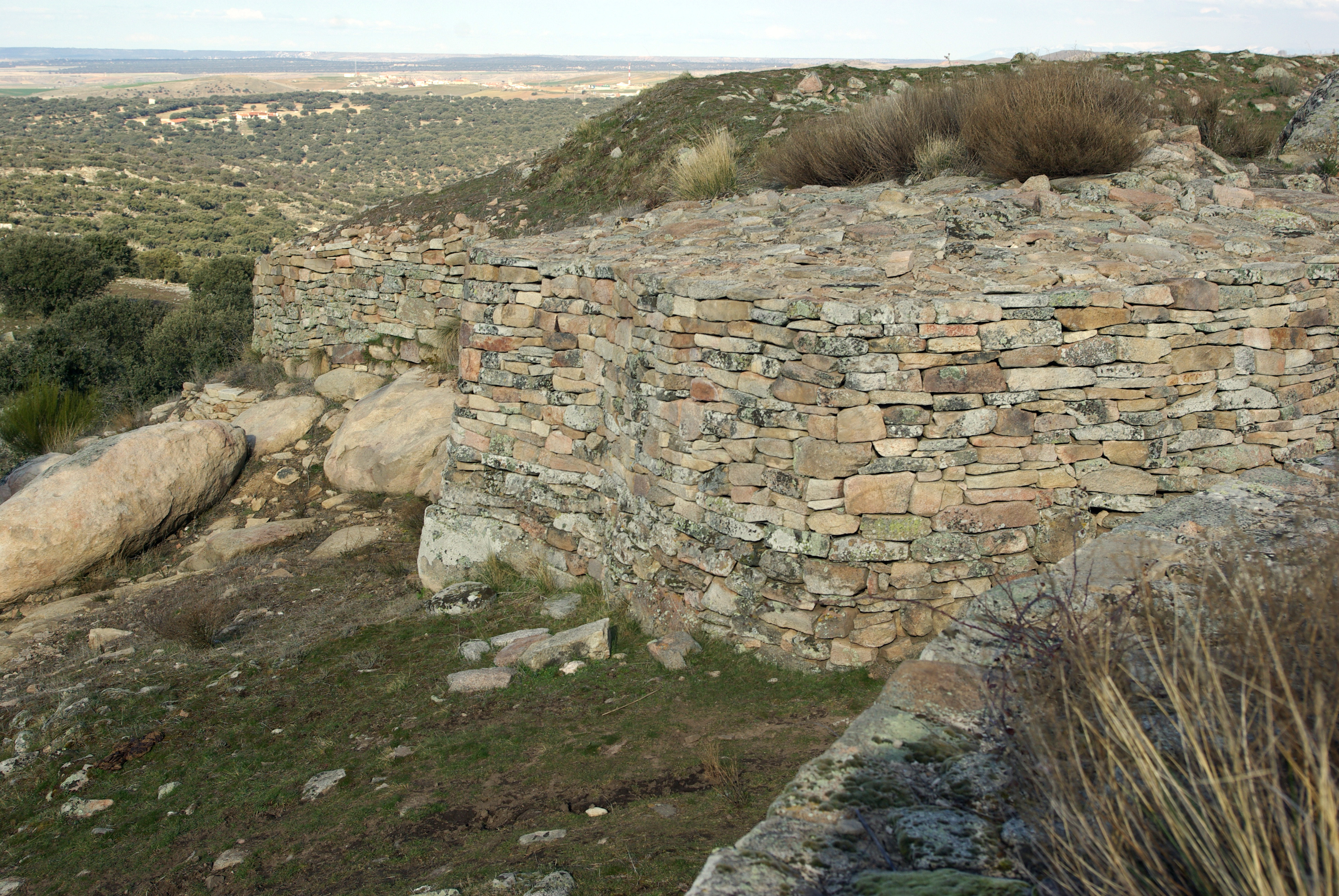 Hill fort of Las Cogotas, near Ávila (Ávila, Spain)